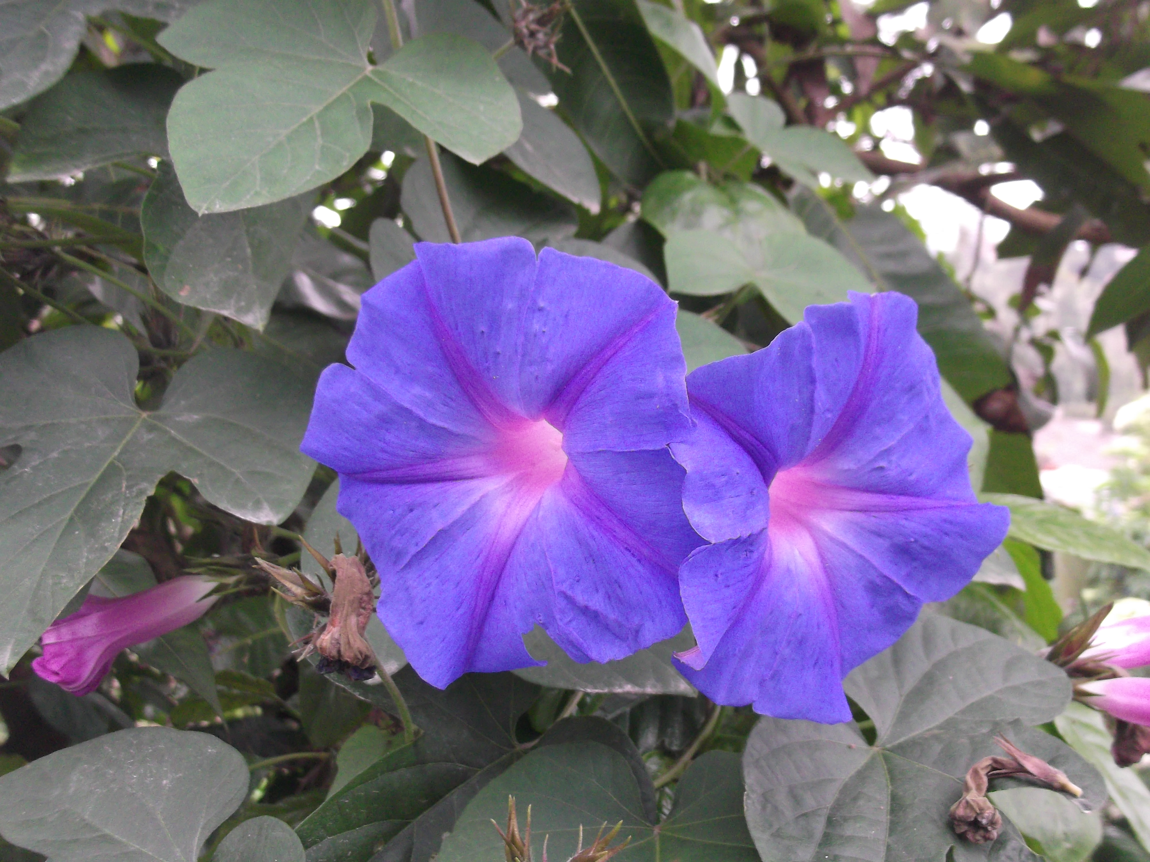 Ipomoea indica-BSI-yercaud-salem-India